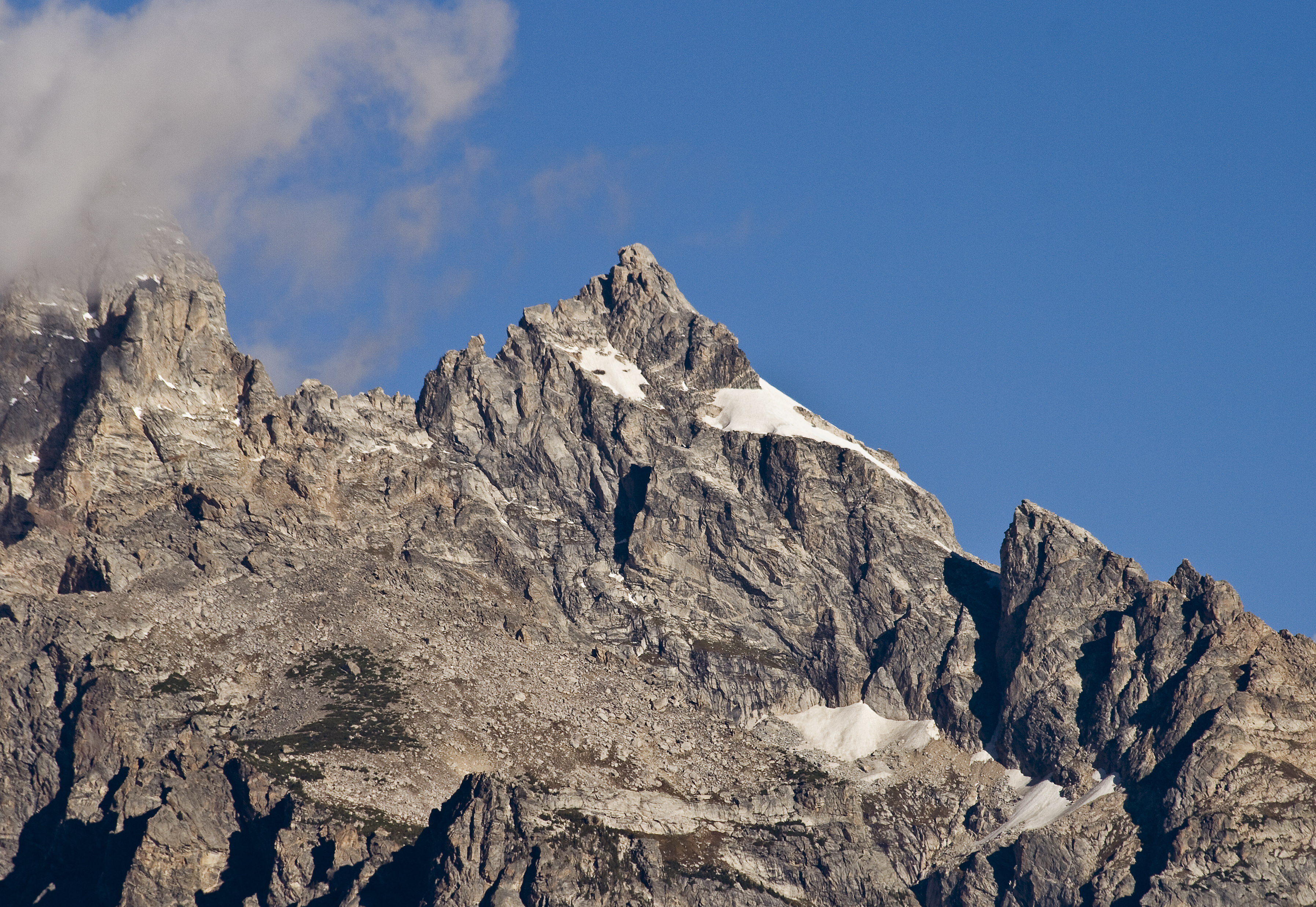 Mount Owen from the southeast, Grand Teton National Park, Wyoming, USA